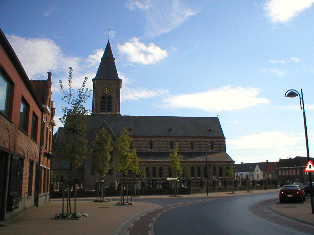 Foto: Johan S 16:59, 1 December 2006 (UTC)